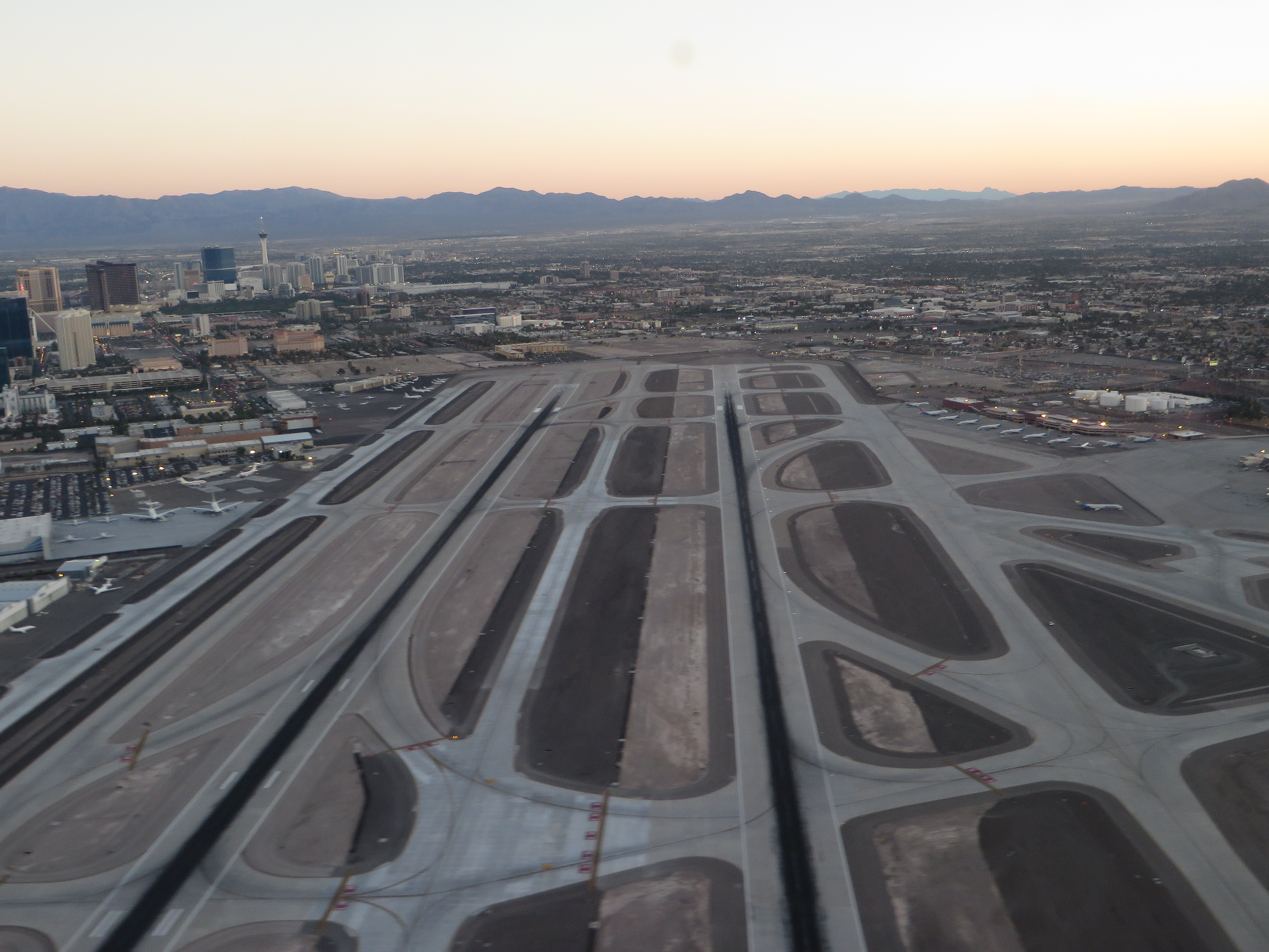 McCarran International Airport is the principal commercial airport serving Las Vegas and Clark County, Nevada, United States. The airport is located five miles (8 km) south of the central business district of Las Vegas, in the unincorporated area of Paradise in Clark County. It covers an area of 2,800 acres (1,100 ha) and has four runways. McCarran is owned by Clark County and operated by the Clark County Department of Aviation (DOA). McCarran Airport serves as a hub for Great Lakes Airlines. It serves as a focus city for Allegiant Air and Southwest Airlines; McCarran is also the largest operation base for both Allegiant and Southwest. The airport became a crew and maintenance base for Spirit Airlines in February 2012. It is named after the former Nevada Senator Pat McCarran. In 2010, McCarran ranked 22nd in the world for passenger traffic, with 39,757,359 passengers passing through the terminal. The airport ranked 9th in the world for aircraft movements with 505,591 takeoffs and landings. McCarran and the DOA are completely self-sufficient enterprises, requiring no money from the County's general fund. As of November 2009, Southwest Airlines operated more flights out of McCarran than at any other airport. Southwest also carries the most passengers in and out of McCarran. Southwest currently operates out of 21 gates, primarily in Concourse C. Since 2008, Canadian airline WestJet has become the largest international carrier at McCarran. The top five largest scheduled airlines at McCarran in number of passengers carried in the first 11 months of 2009 are Southwest Airlines (38.3%), US Airways/US Airways Express (11.8%), United Airlines/United Express (6.9%), Delta Air Lines/Delta Connection (5.6%), and American Airlines (5.5%). McCarran Airport has more than 1,234 slot machines throughout the airport terminals. The slots are owned and operated by Michael Gaughan Airport Slots. Reno/Tahoe International Airport also has 251 gambling machines both airside and landside.